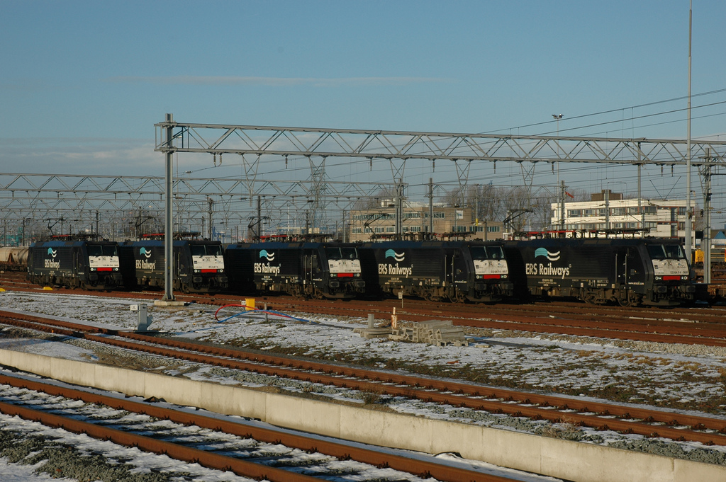 ers railways